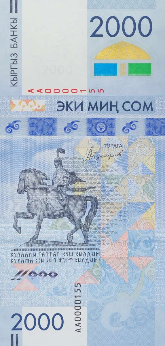 2000 som of Kyrgyzstan (2017)